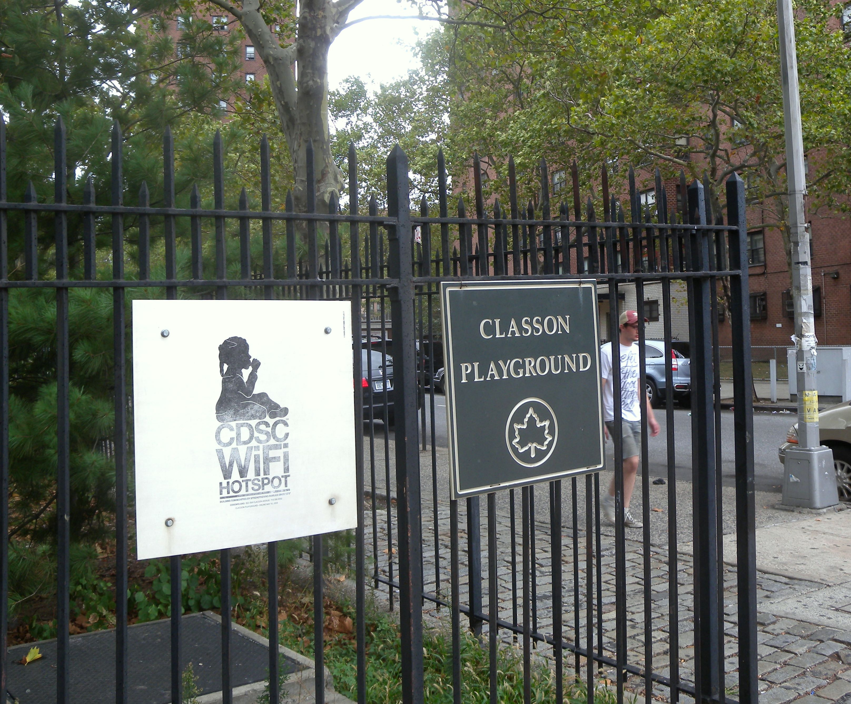 Looking northeast from Lafayette Avenue at sign for Wi-Fi hotspot owned by Child Development Support Corporation, in Classon Playground on a rainy midday.